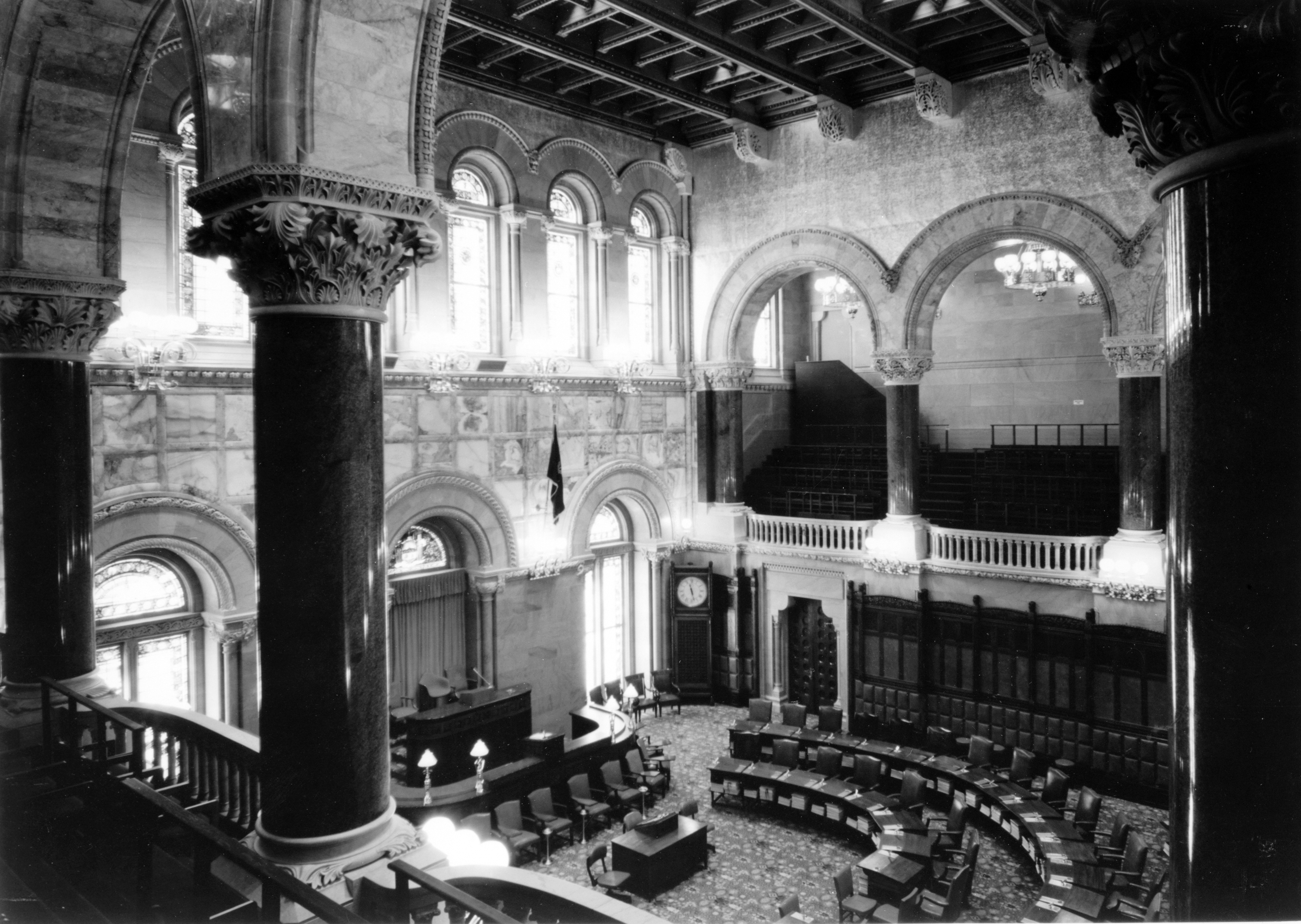 New York State Senate Chamber in the New York State Capitol in Albany, New York, United States